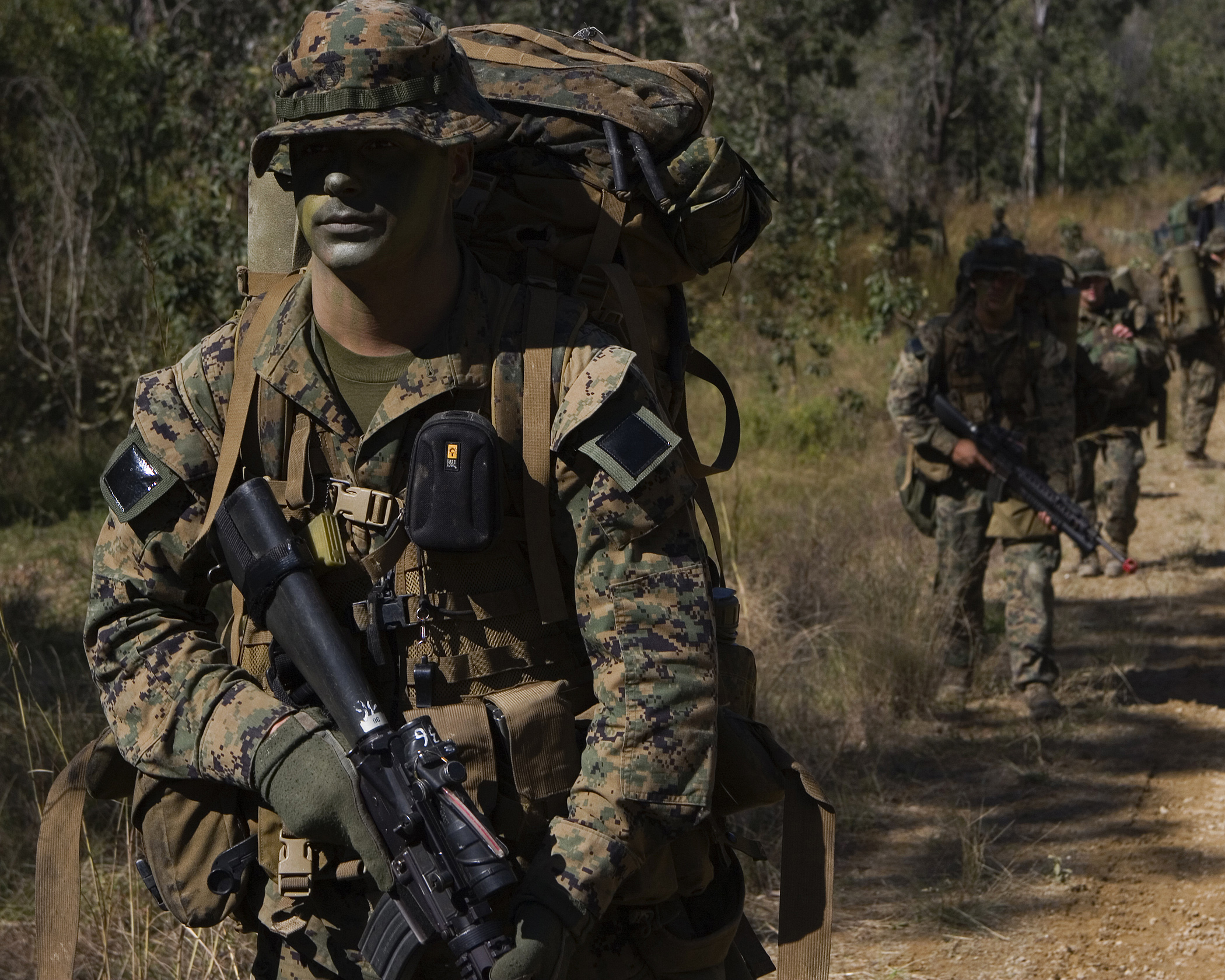 MARINE INFANTRY SHOALWATER BAY TRAINING AREA, QUEENSLAND, Australia – Cpl. Jesse Woods, a rifleman with the 3rd Marine Expeditionary Brigade’s 31st Marine Expeditionary Unit, treks along a road here, June 24, on a unit movement during Exercise Talisman Saber 2007. Talisman Saber is conducted to train an U.S. and Australian joint task force and operations staff in crisis action planning for execution of contingency operations. The exercise involves more than 32,000 personnel from both nations that will focus on improving interoperability and enhancing regional stability.